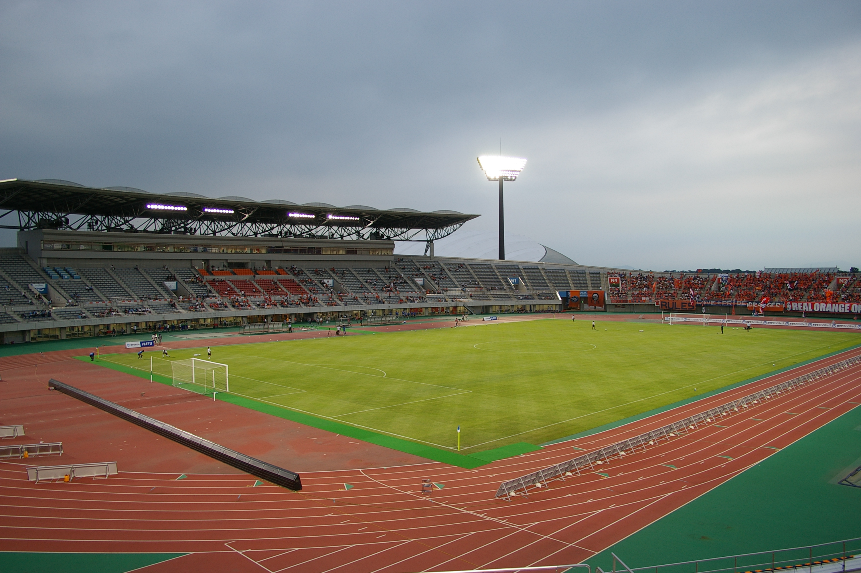 Kumagaya Global SportsPark MainStadium.Kumagaya-shi,Saitama-Ken,Japan